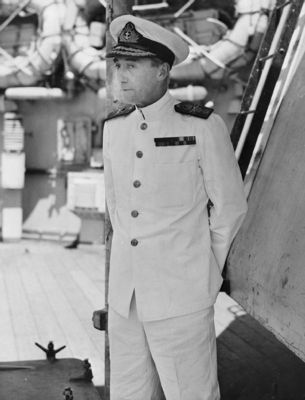 Photograph of Vice Admiral Sir H Bernard Rawlings, KCB, OBE.